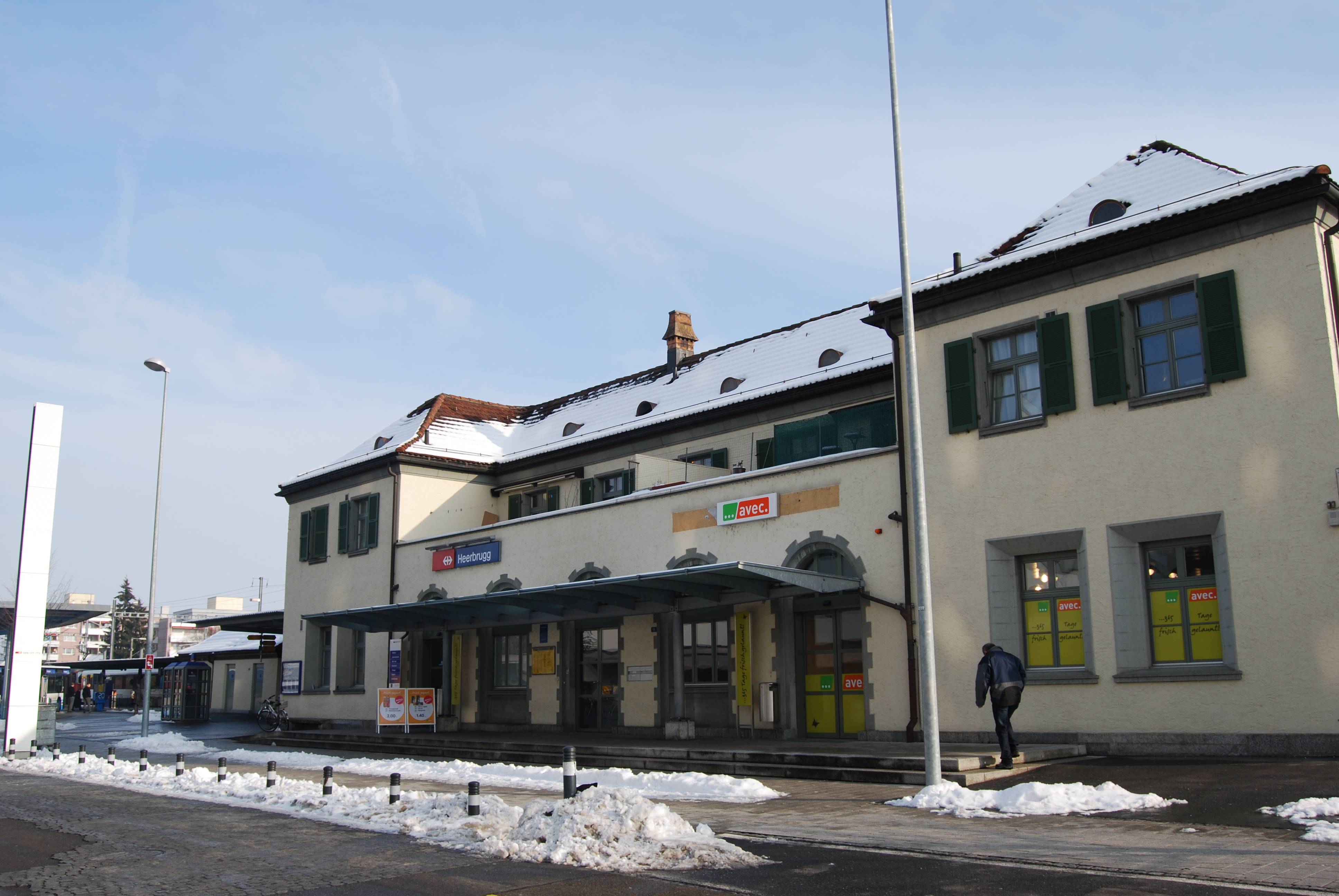 Trainstaiton of Heerbrugg, municipality of Au, canton of St. Gallen, SwitzerlandEsperanto: Stacidomo de Heerbrugg, komunumo Au, Kantono Sankt-Galo, Svislando